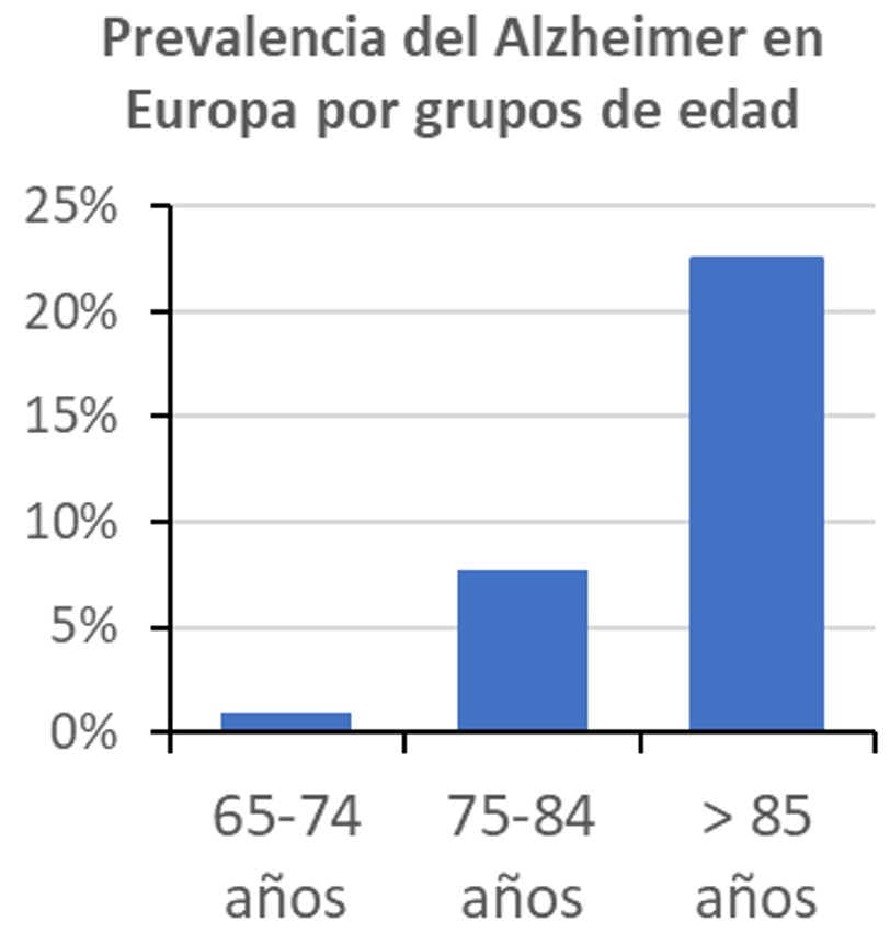 Prevalence of Alzheimer's disease increases at an older age.